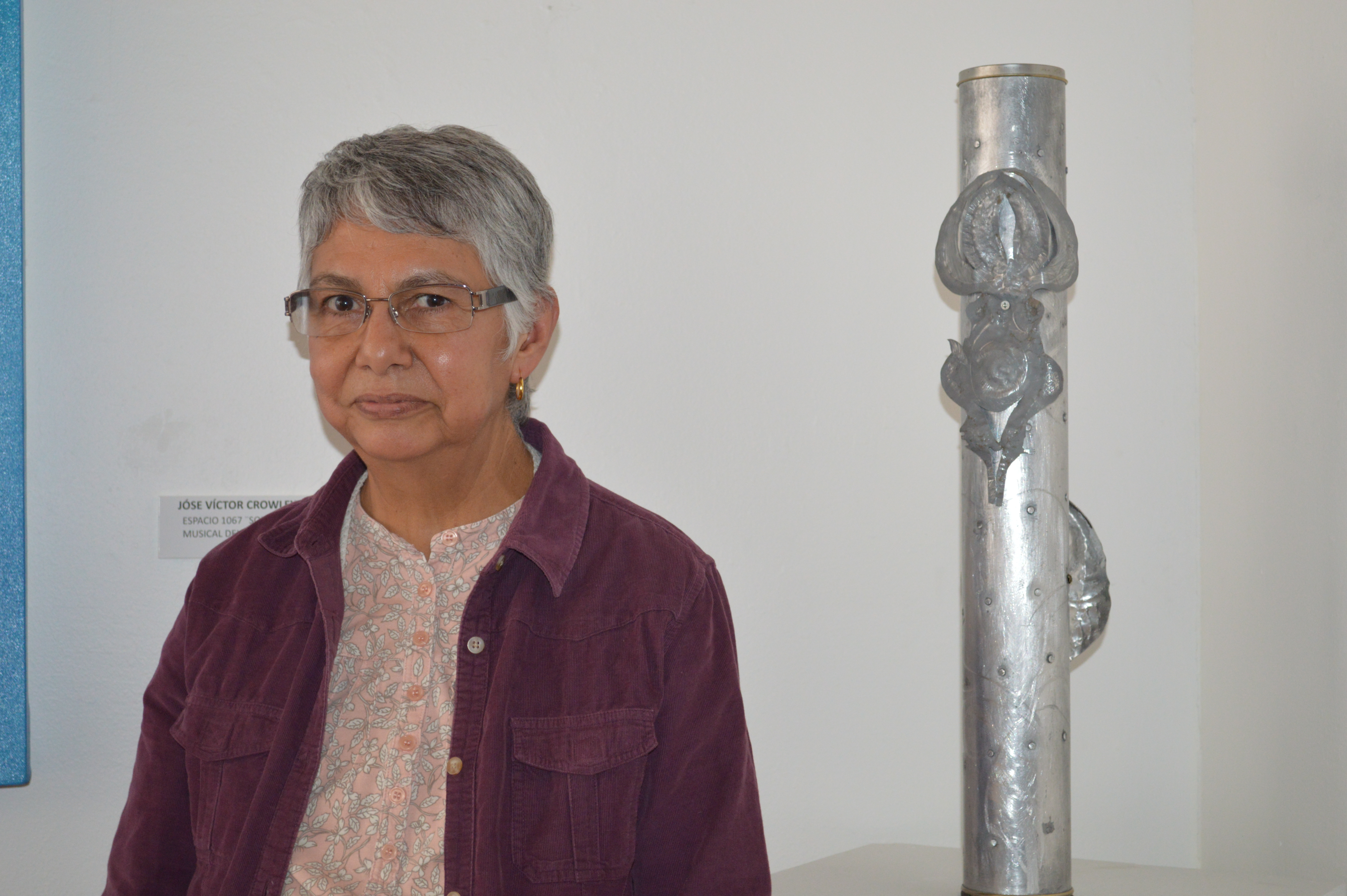 María Luisa Reid of the Salon de la Plástica Mexicana